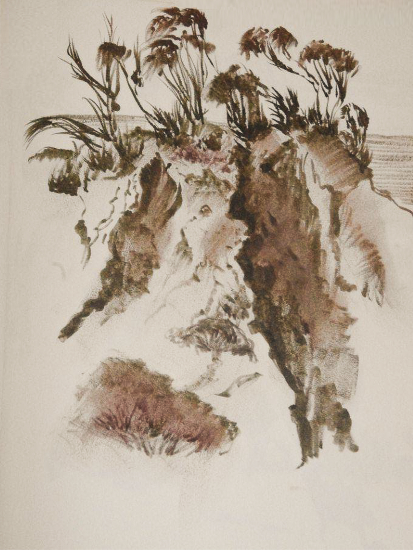 Sand dune drawing by Ian Sprague 1980s; photographed in a private collection at Enfield Victoria